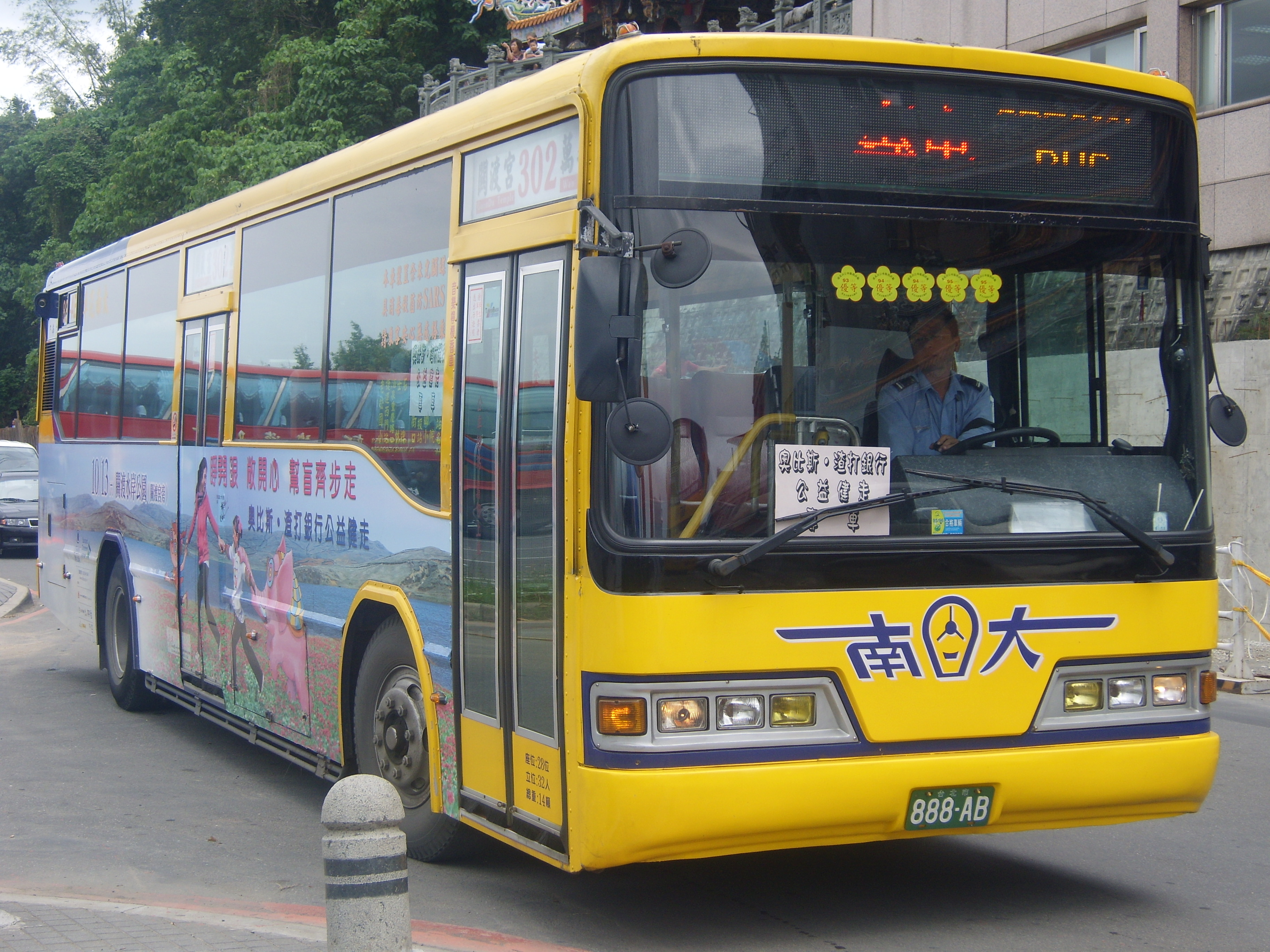 A Shuttle Bus of Taiwan Orbis and Standard Chartered Bank Charity Walking by Danan Bus Co., Ltd.